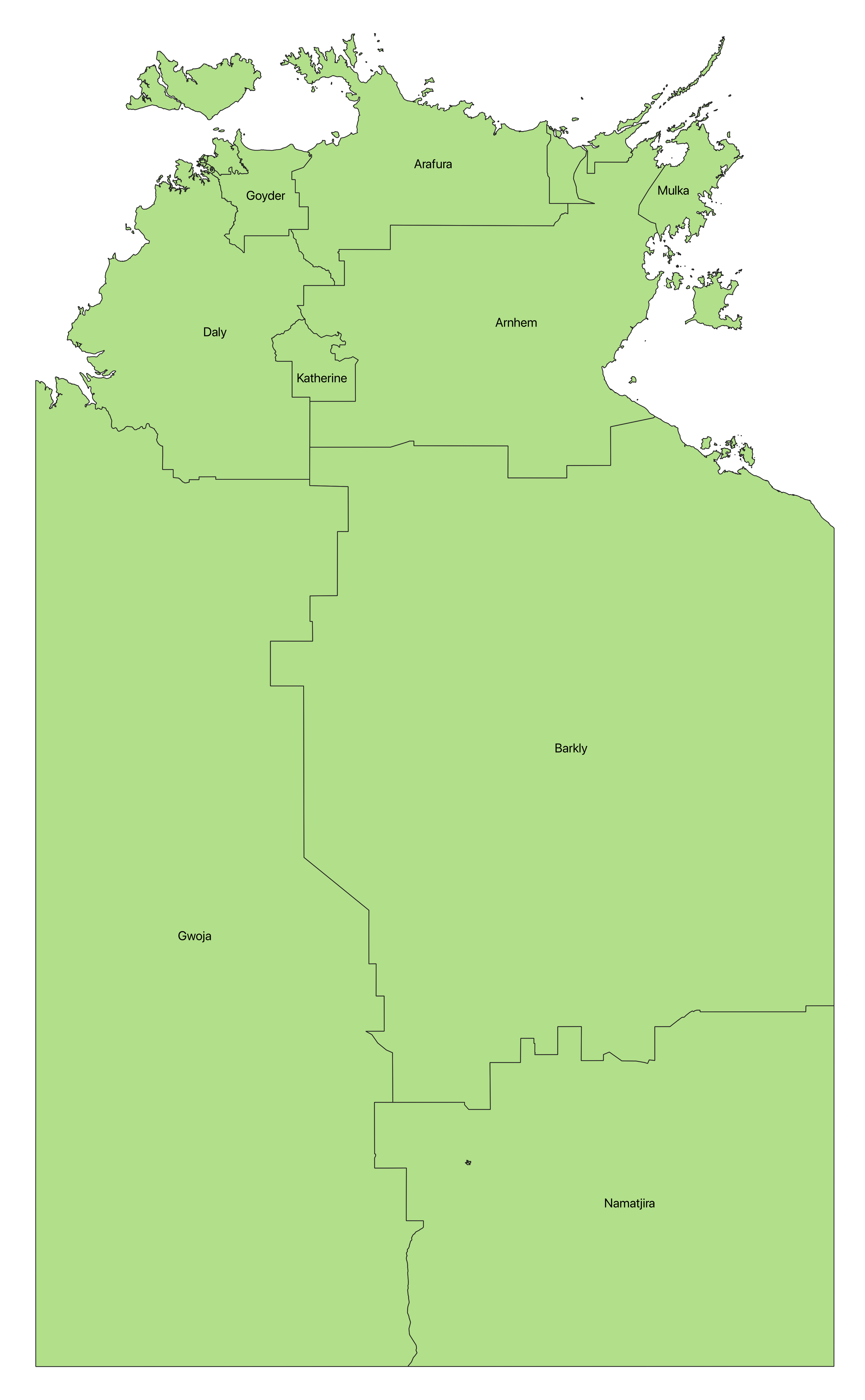 Map of electoral boundaries for the 2020 Northern Territory general election, following a boundary redistribution in 2019.